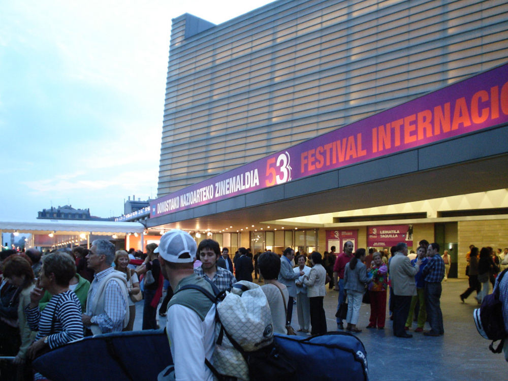 Taken by me. San Sebastian International Film Festival Festival Internacional de Cine de Donostia-San Sebastián